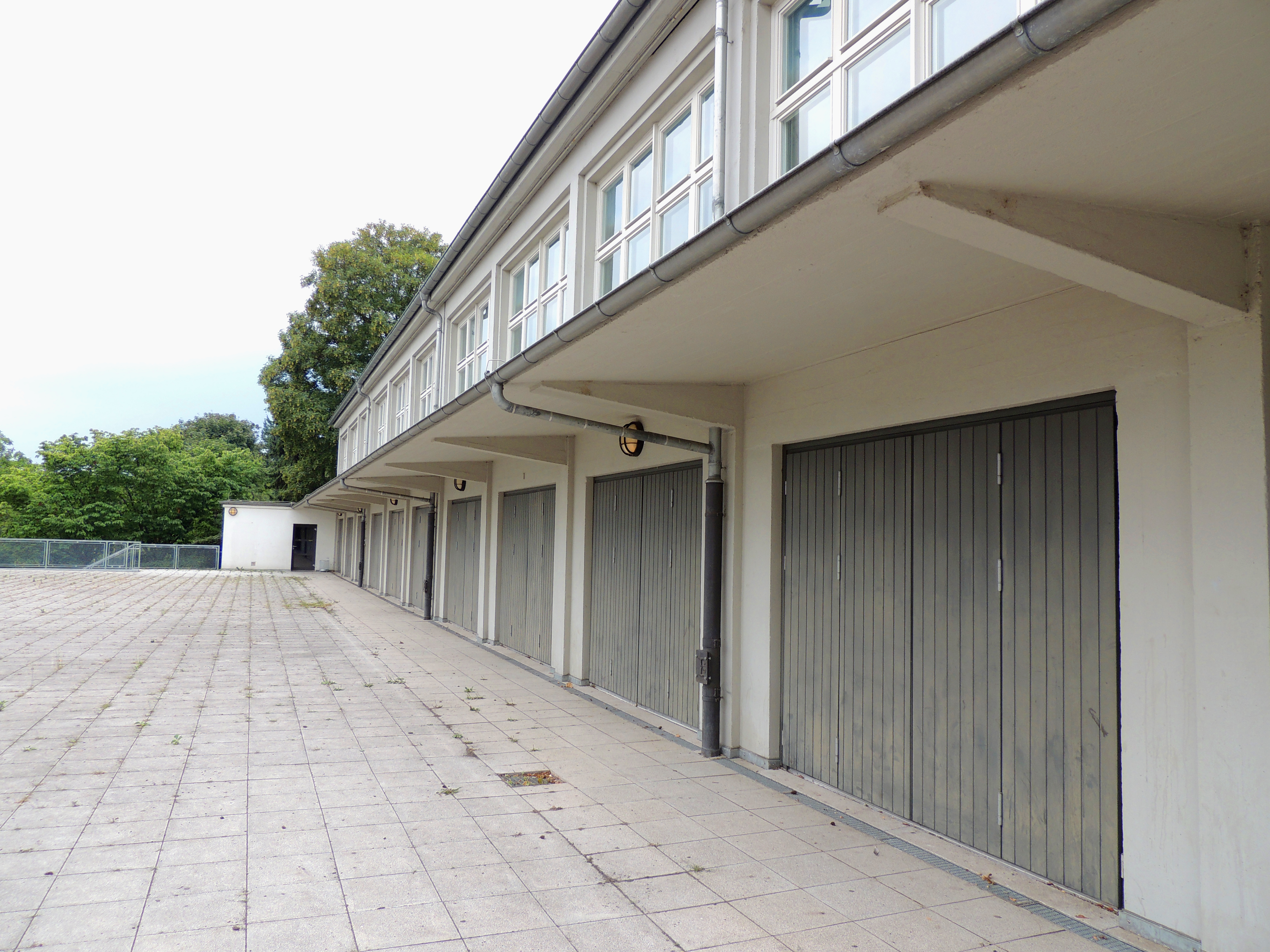 Terrace of the auditorium of the Charles-Hallgarten-Schule near the Bornheimer Hang settlement in Frankfurt am Main-Bornheim, August 2013